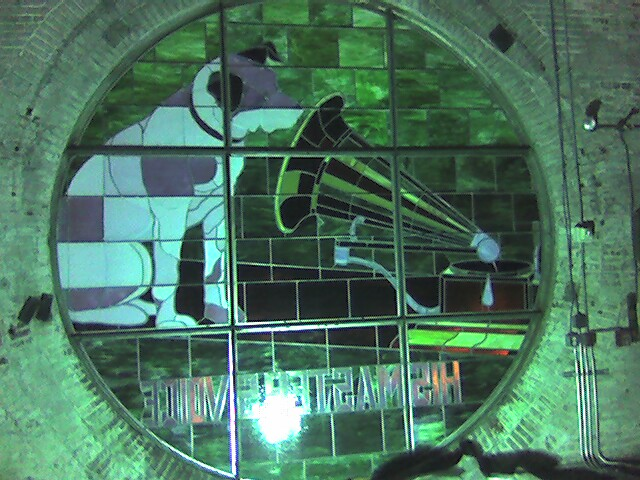 Author: Jose Valentino (myself). This photograph was taken using a Treo 650 camera phone/PDA. There is no copyright on this photograph. This photo was taken from the inside of the Nipper Tower.